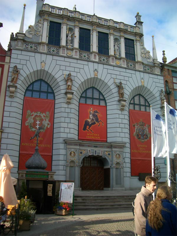 Artus Court in Gdańsk, Poland.